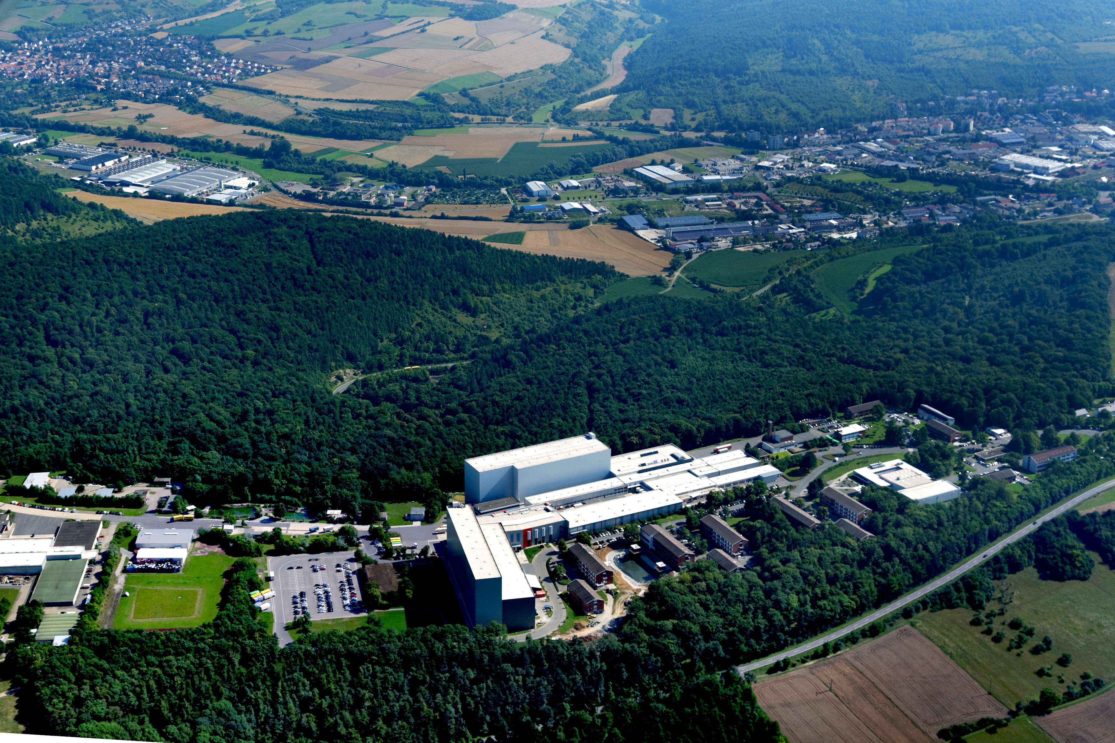 Bad Mergentheim from plane photographed.